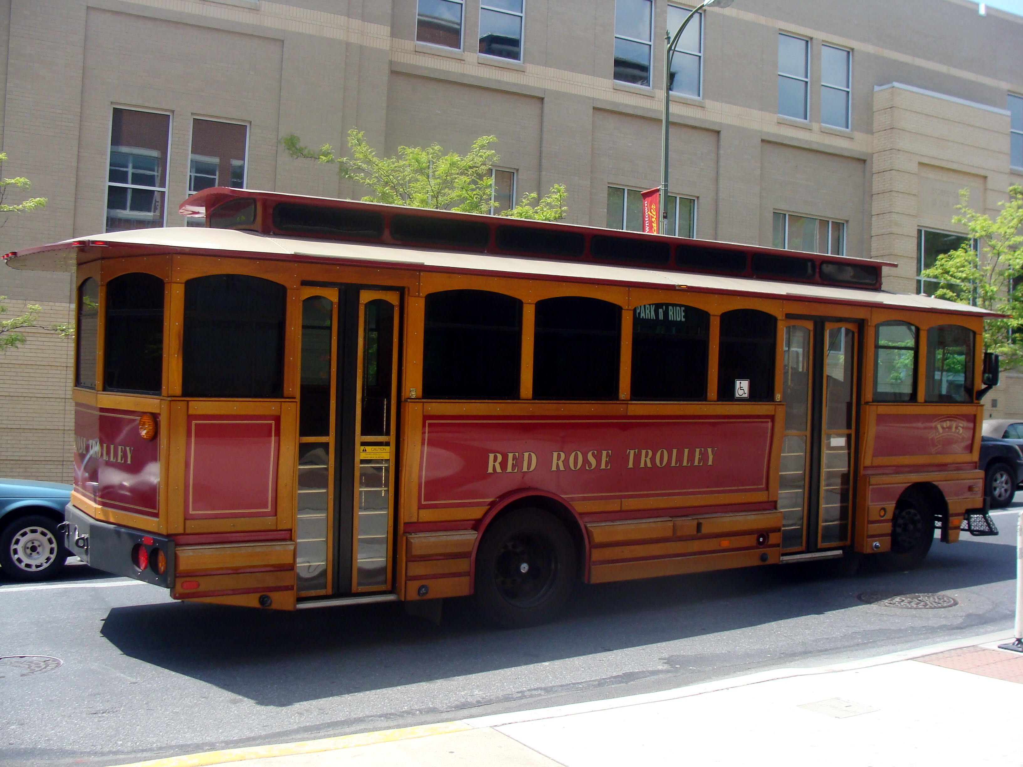 An Optima trolley owned by Red Rose Transit Authority in downtown Lancaster, Pennsylvania.